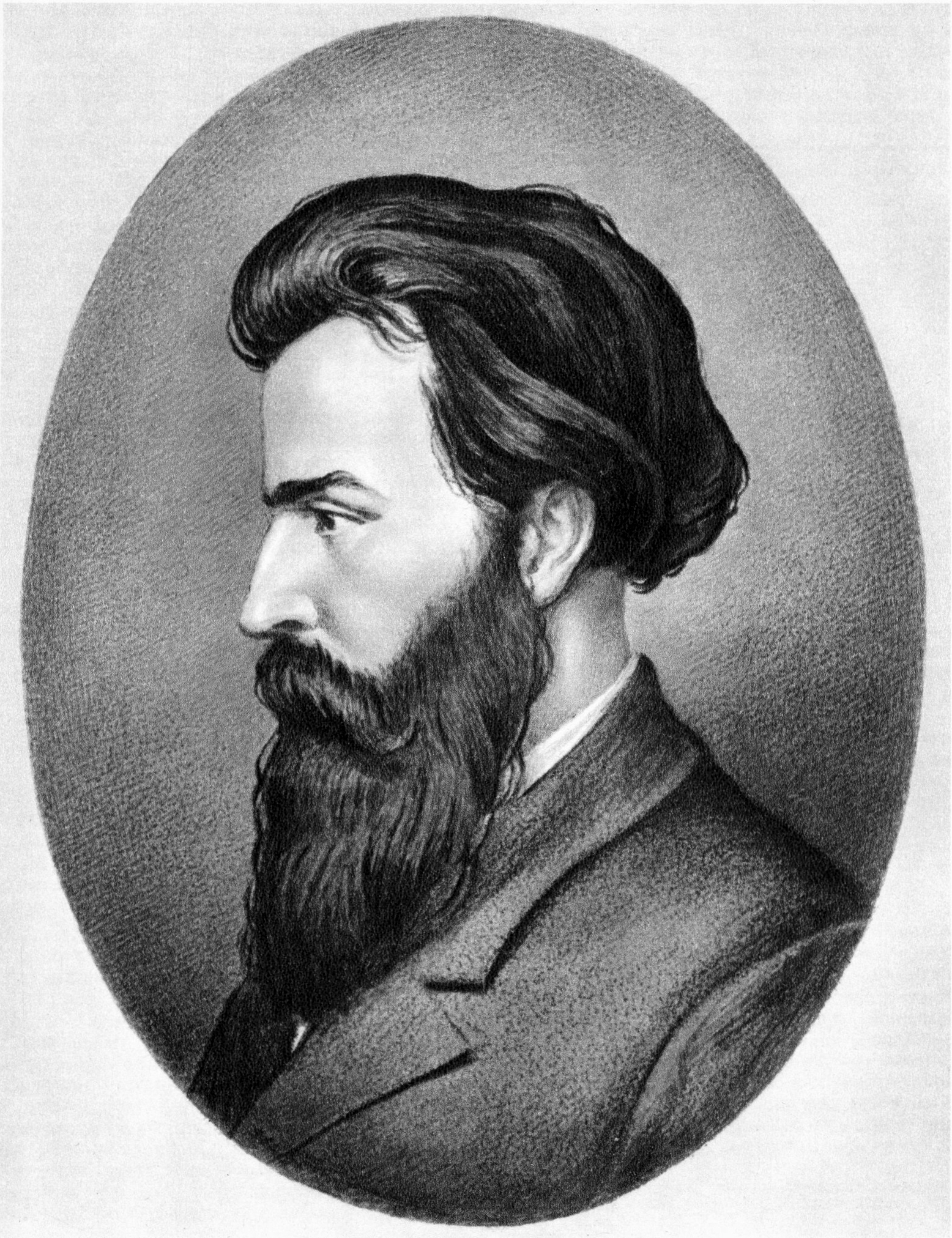 Andrey Zhelyabov portrait